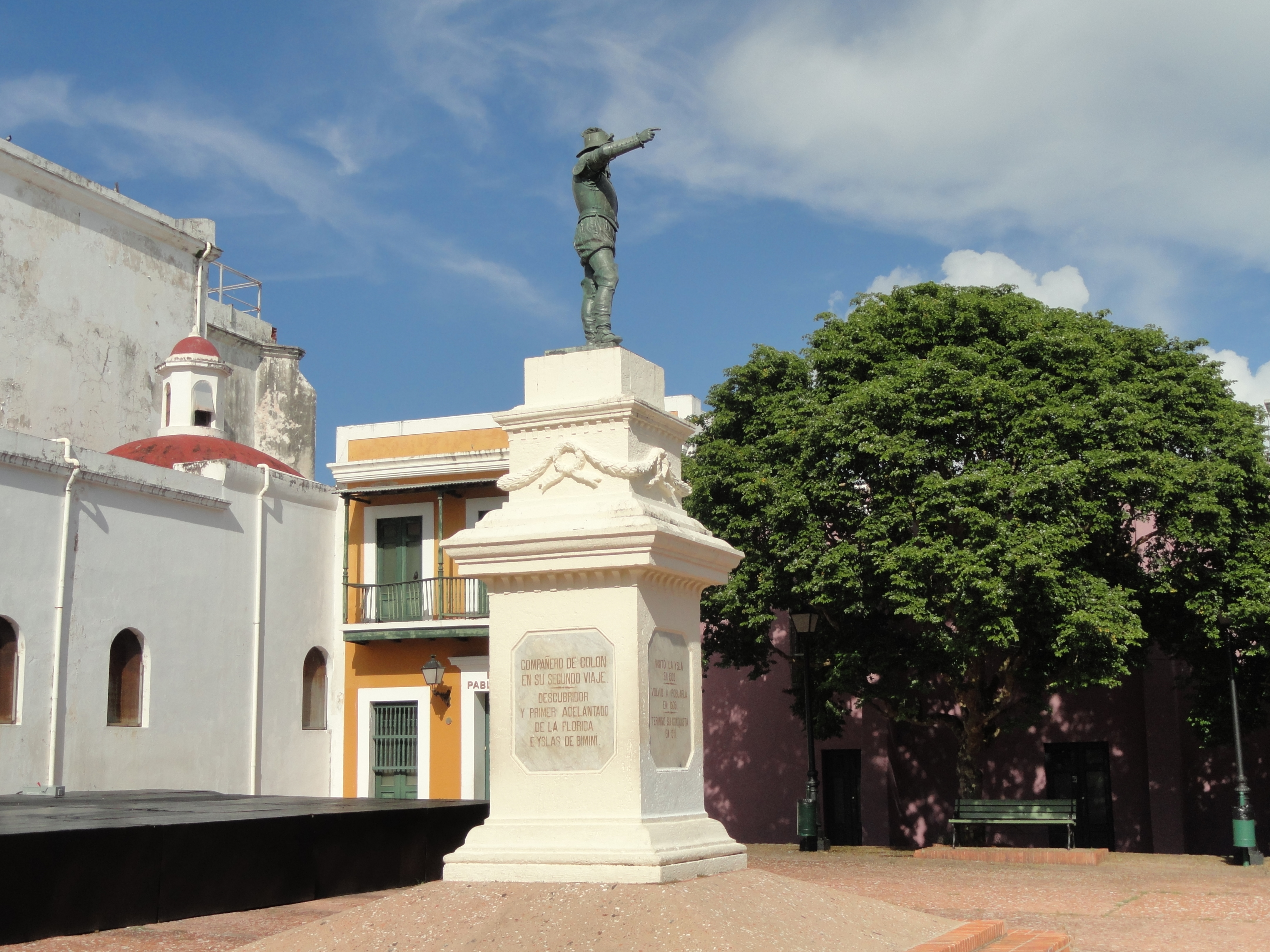 Ponce de León statue in the Plaza de San José, Old San Juan, Puerto Rico. The origin of this statue is obscure; various Internet searches give hints that the sculptor might be Cristina Carreño of Asturias, Spain, and it might have been cast in New York in 1882. ( and "Sobre la estatua de Ponce de León" in the Boletin Mercantil, San Juan, July 9, 1882.) It is clearly old enough to be in the public domain.